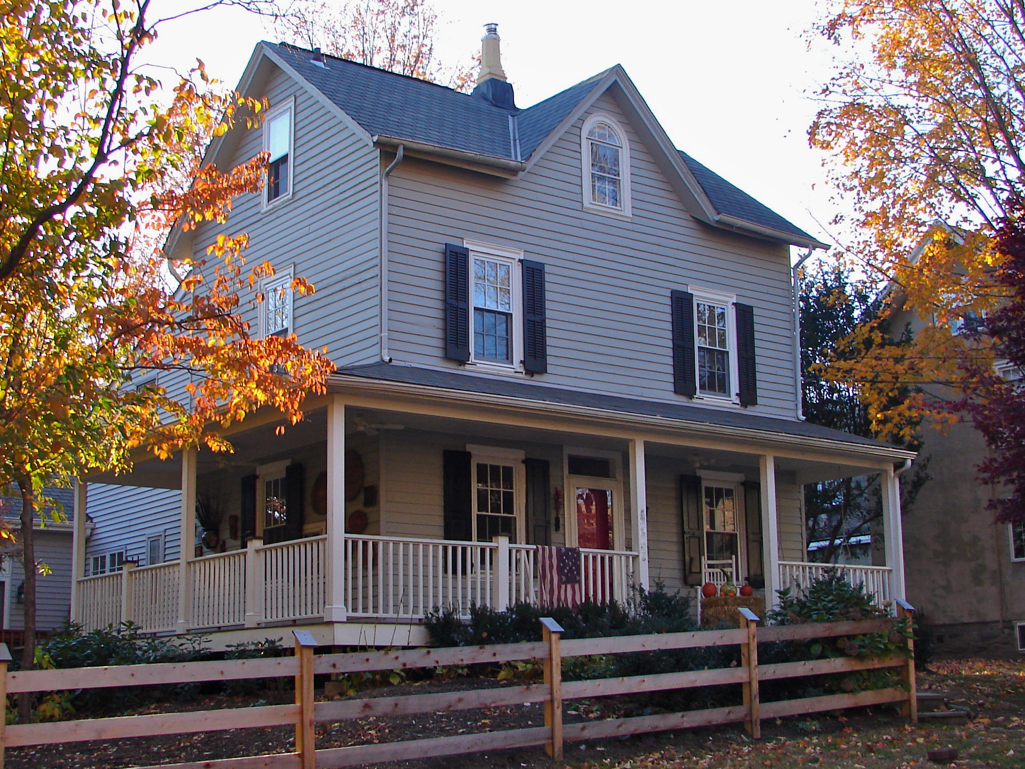 Nice house in Chestnut Hill, Philadelphia, Pennsylvania. Near Pastorius Park. The entire neighborhood is a Historic District on the NRHP, the Chestnut Hill Historic District. The house is near the more famous Vanna Venturi House and Eshrick House